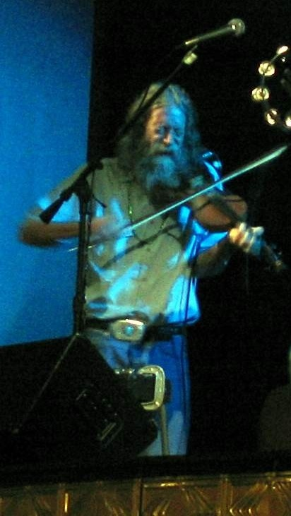 Randy Crouch at the Cherokee Casino in Catoosa, OK. 2006